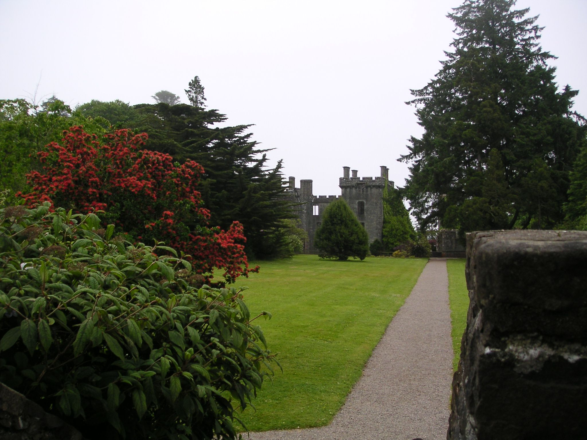 Armadale castle, Skye, Scotland Author: Wojsyl, June 2004